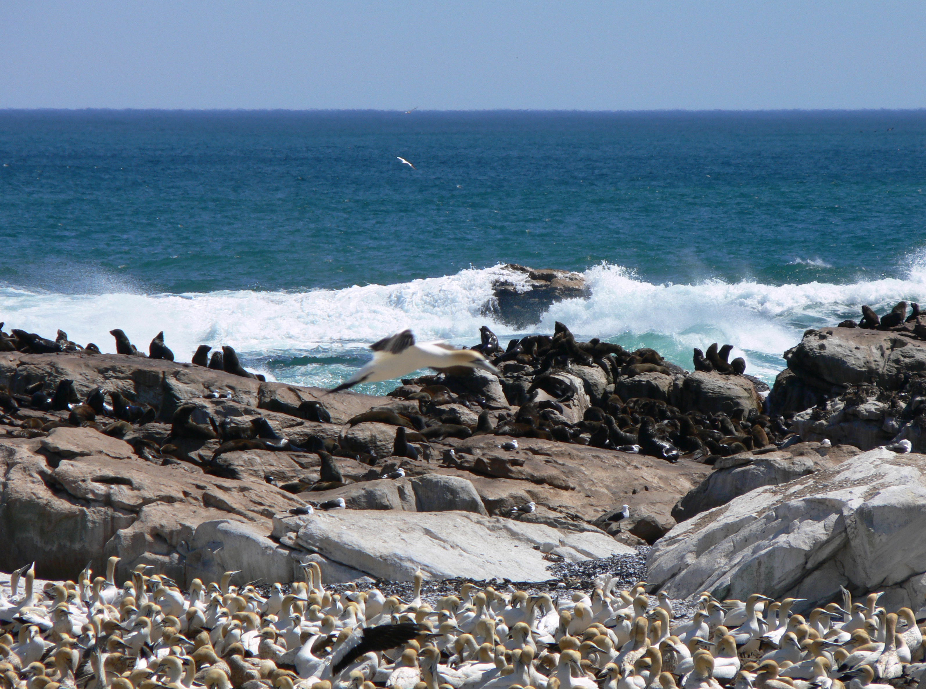 Cape Gannet (Morus capensis) and Cape Fur Seal (Arctocephalus pusillus), Bird Island Nature Reserve, Lamerts Bay, Western Cape, South Africa